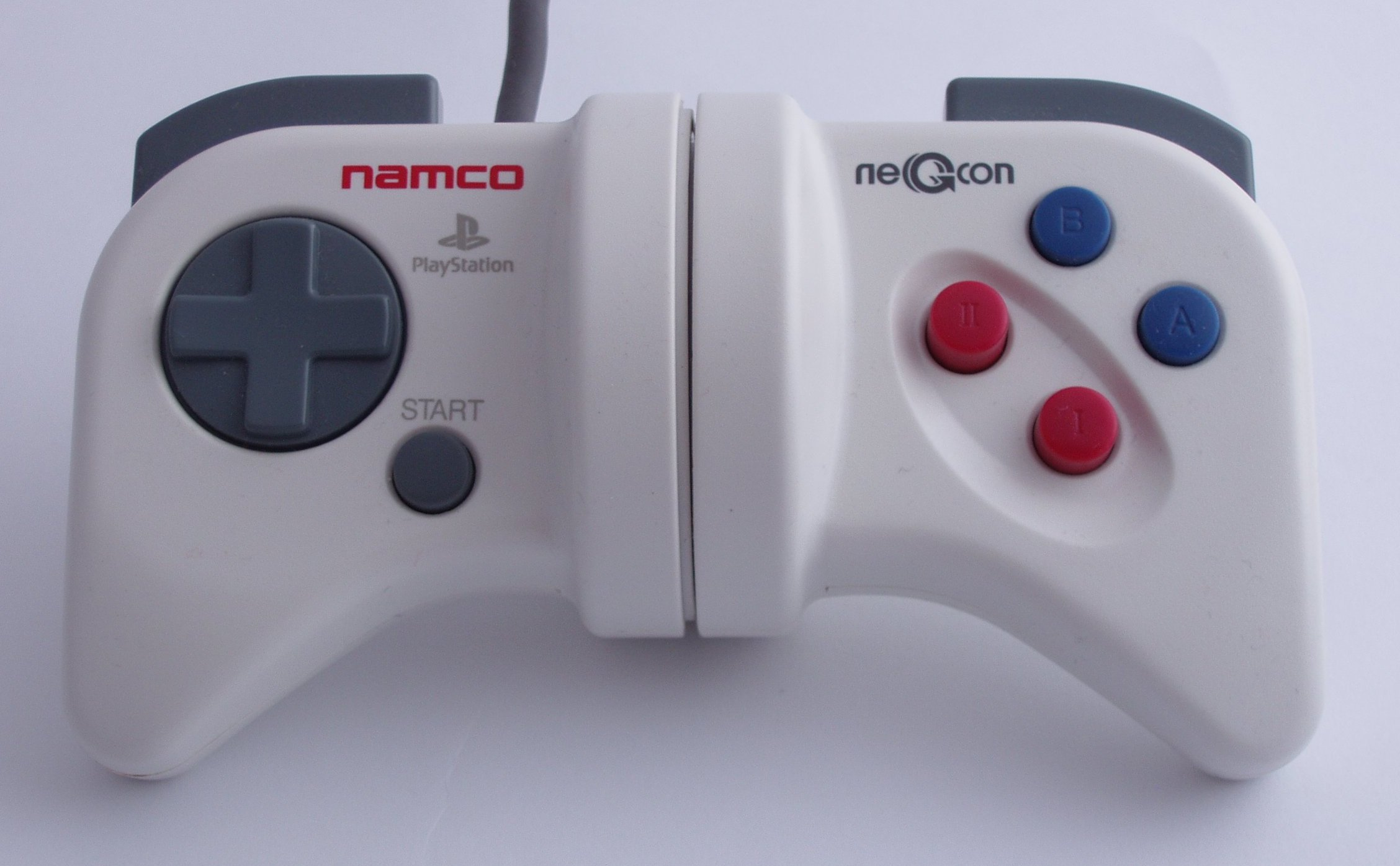 Description: The Namco NeGcon Playstation controller in its centred position. Source: Self-made Photographer: Malcolm Tyrrell Camera: Olympus C5000Z (image edited in The GIMP)